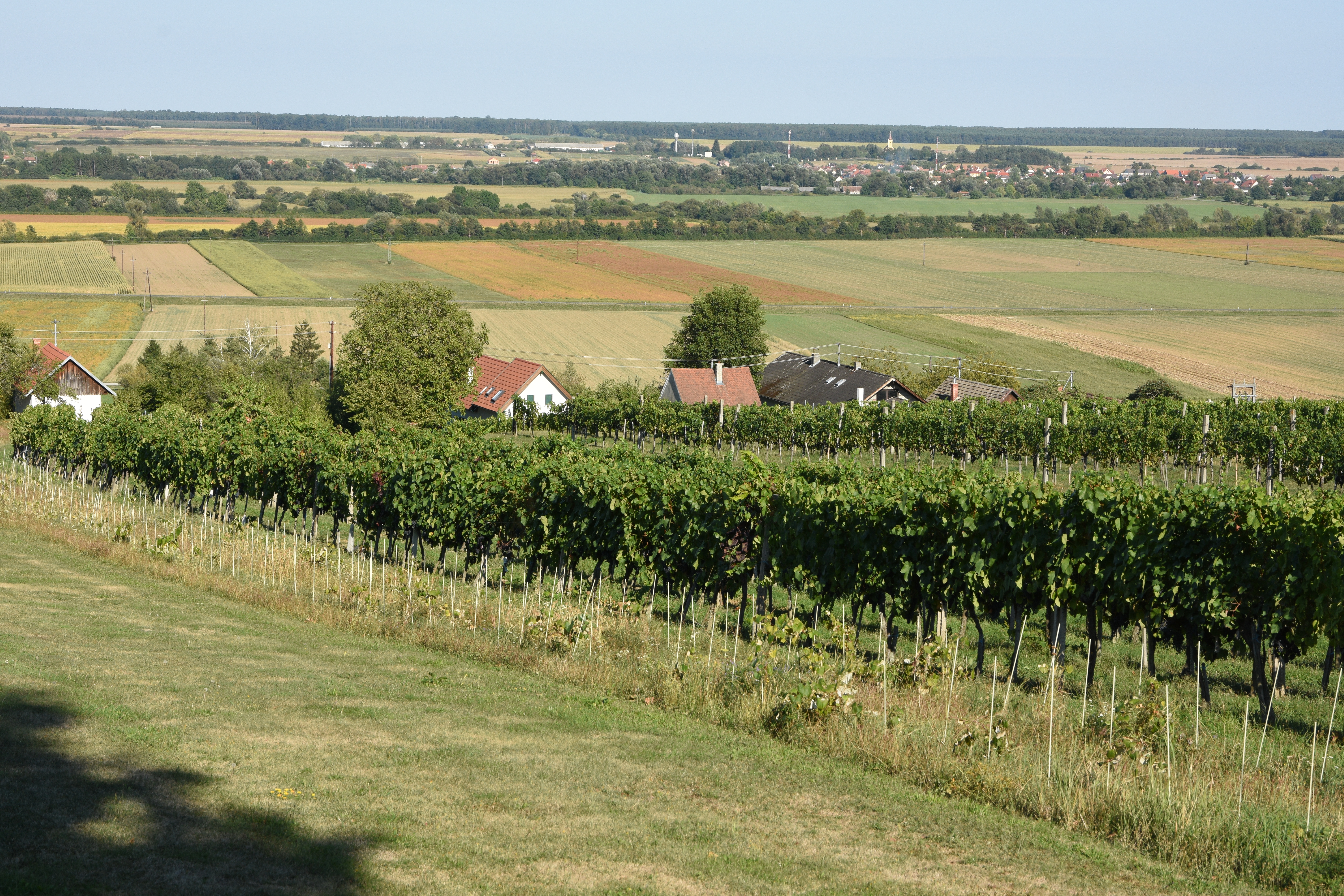 Gaaser Weinberg, Eberau